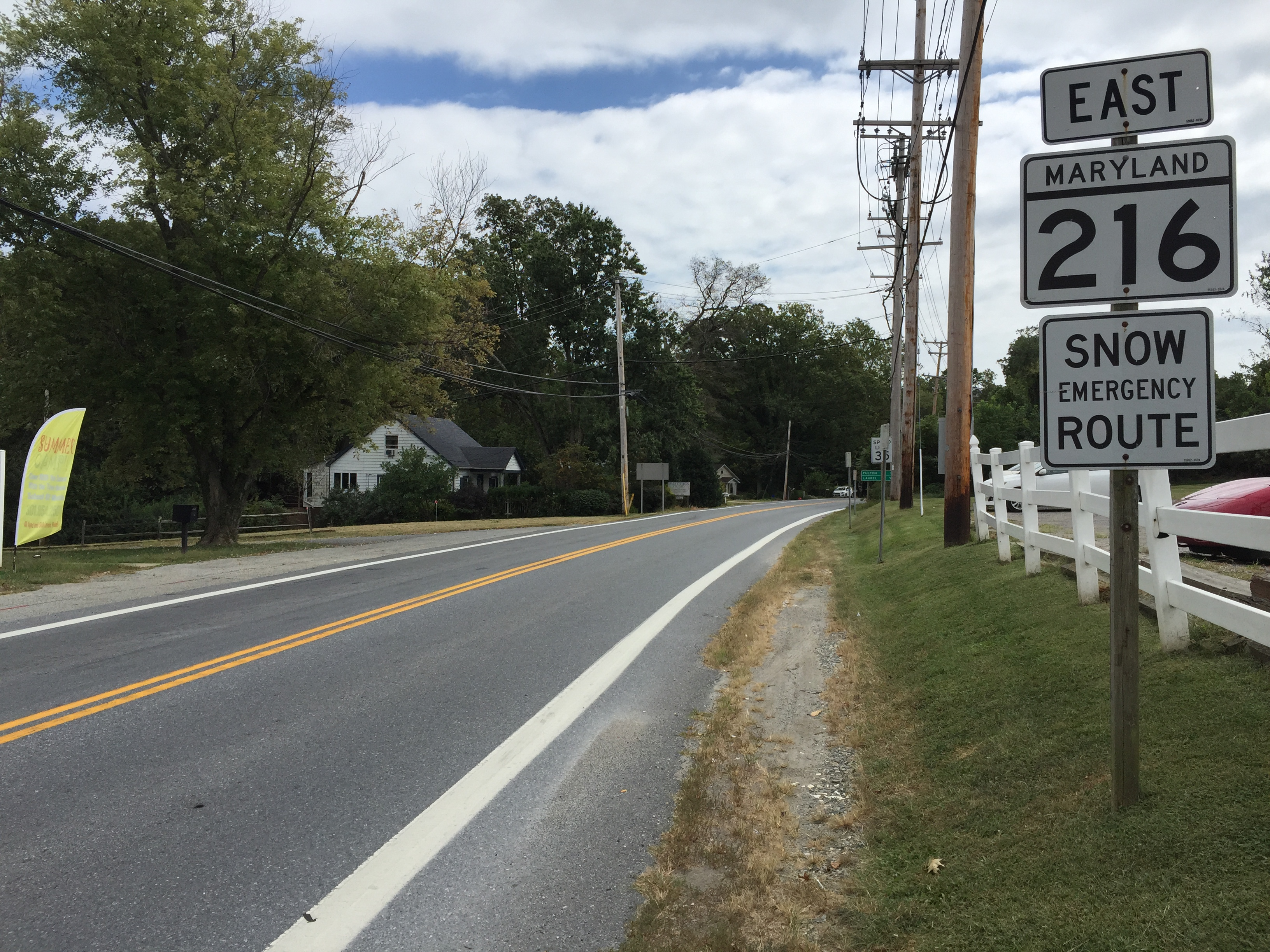 View east along Maryland State Route 216 (Scaggsville Road) at Maryland State Route 108 (Clarksville Pike) in Highland, Howard County, Maryland